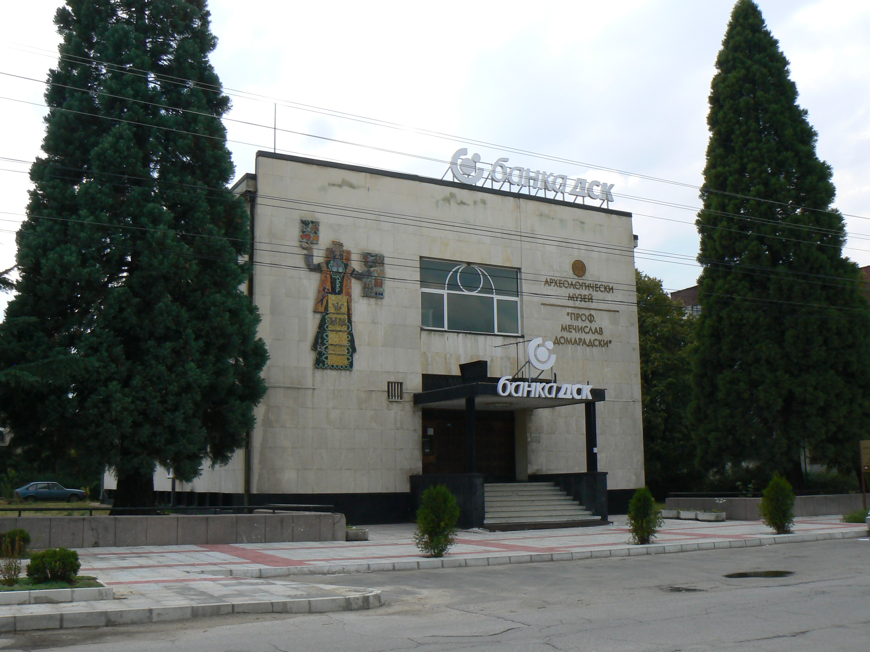 The archaeological museum in the town of Septemvri, Bulgaria